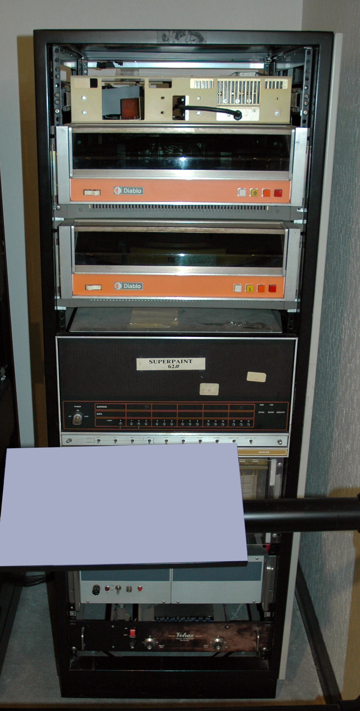 Dick Shoup's SuperPaint system in the Computer History Museum. The info panel has been removed as it shows coyrighted text and images